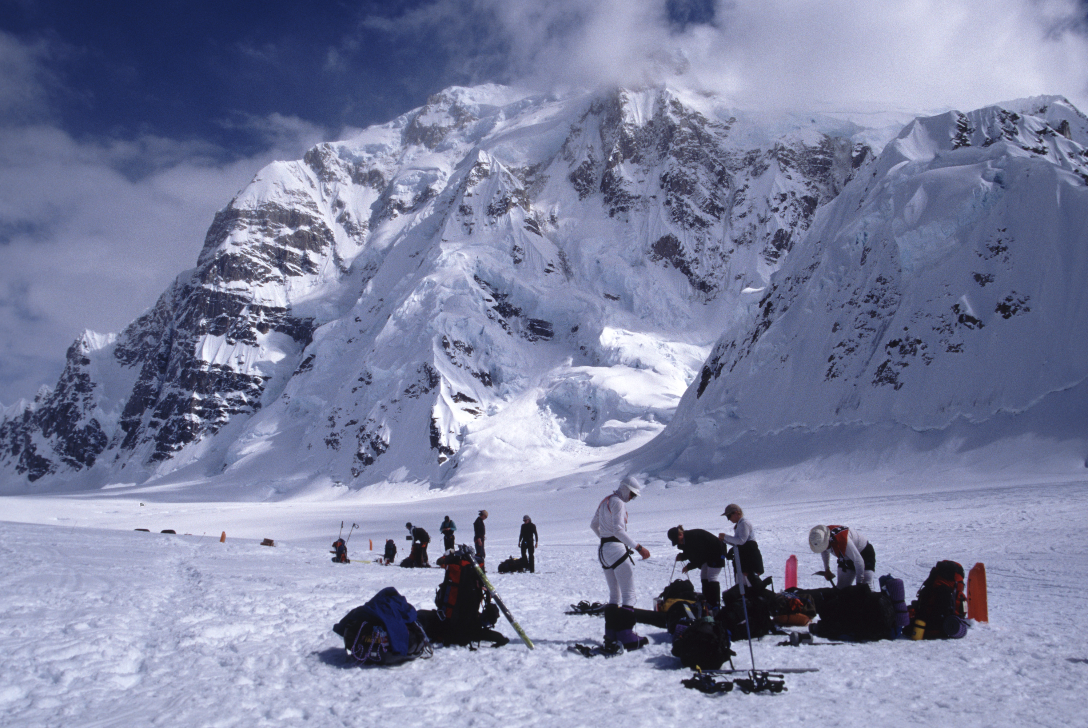 The north side of Mt. Hunter seen from the NW: landing strip on the Kahiltna Glacier